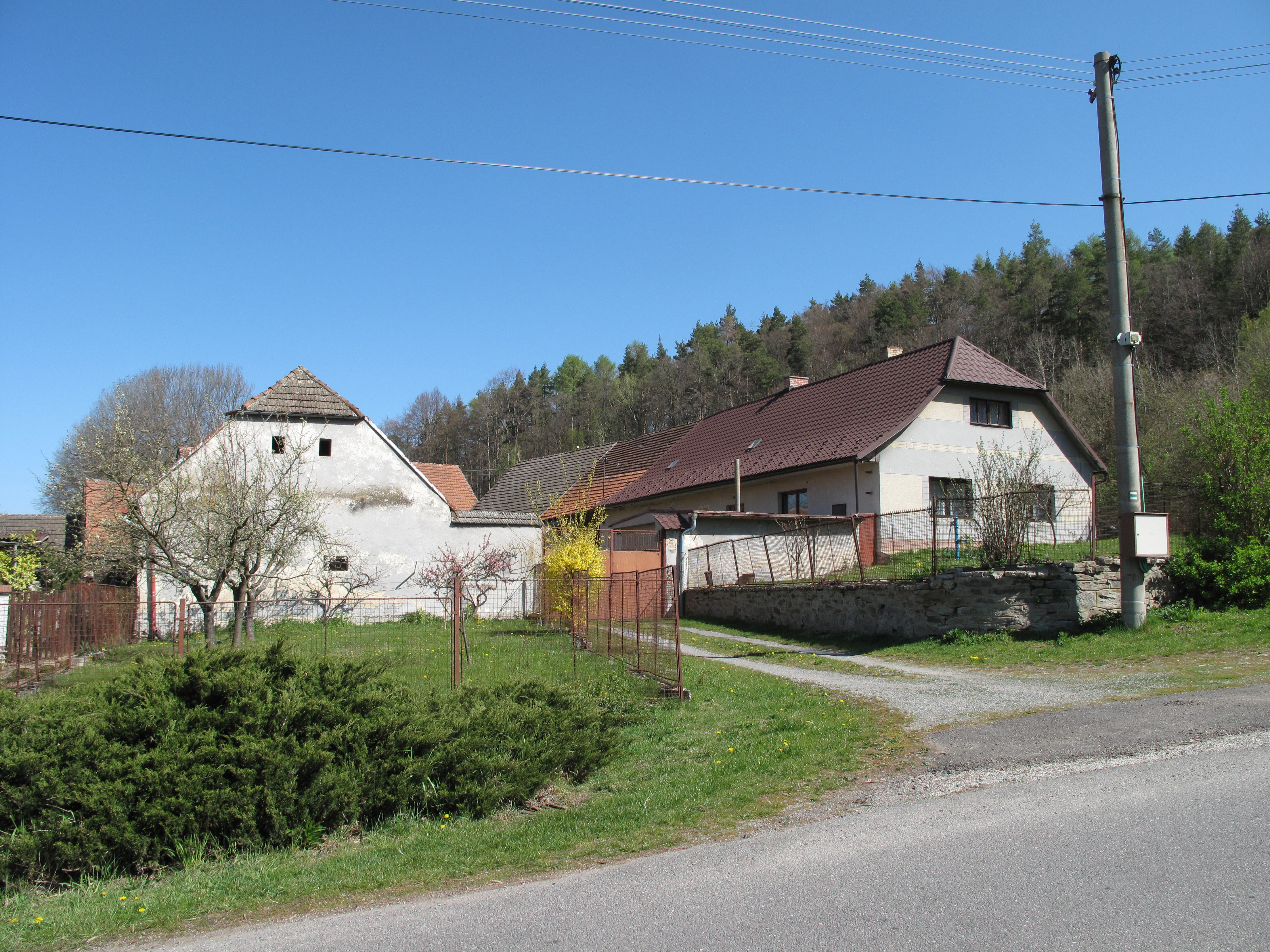 Houses in Staniměřice.